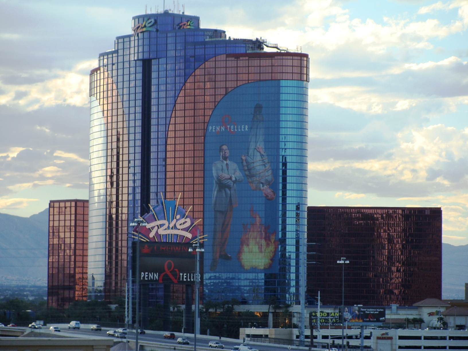 Rio hotel (Las Vegas).